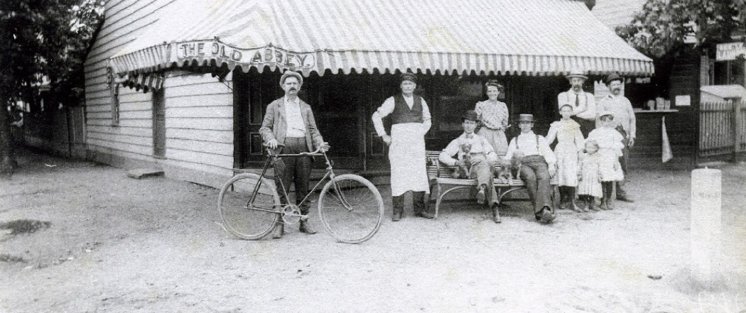 Photograph of The Old Abbey (now Neir's Tavern) in Queens, New York City, taken between 1835 and 1898 (judging by the clothes, toward the latter part of that span). Other information It MAY be private photograph which was only PUBLISHED at some date much later... don't know, but entirely possible. FWIW the photographer is dead and, since the photo was taken 116 years ago at the very least, most likely dead 70 years.